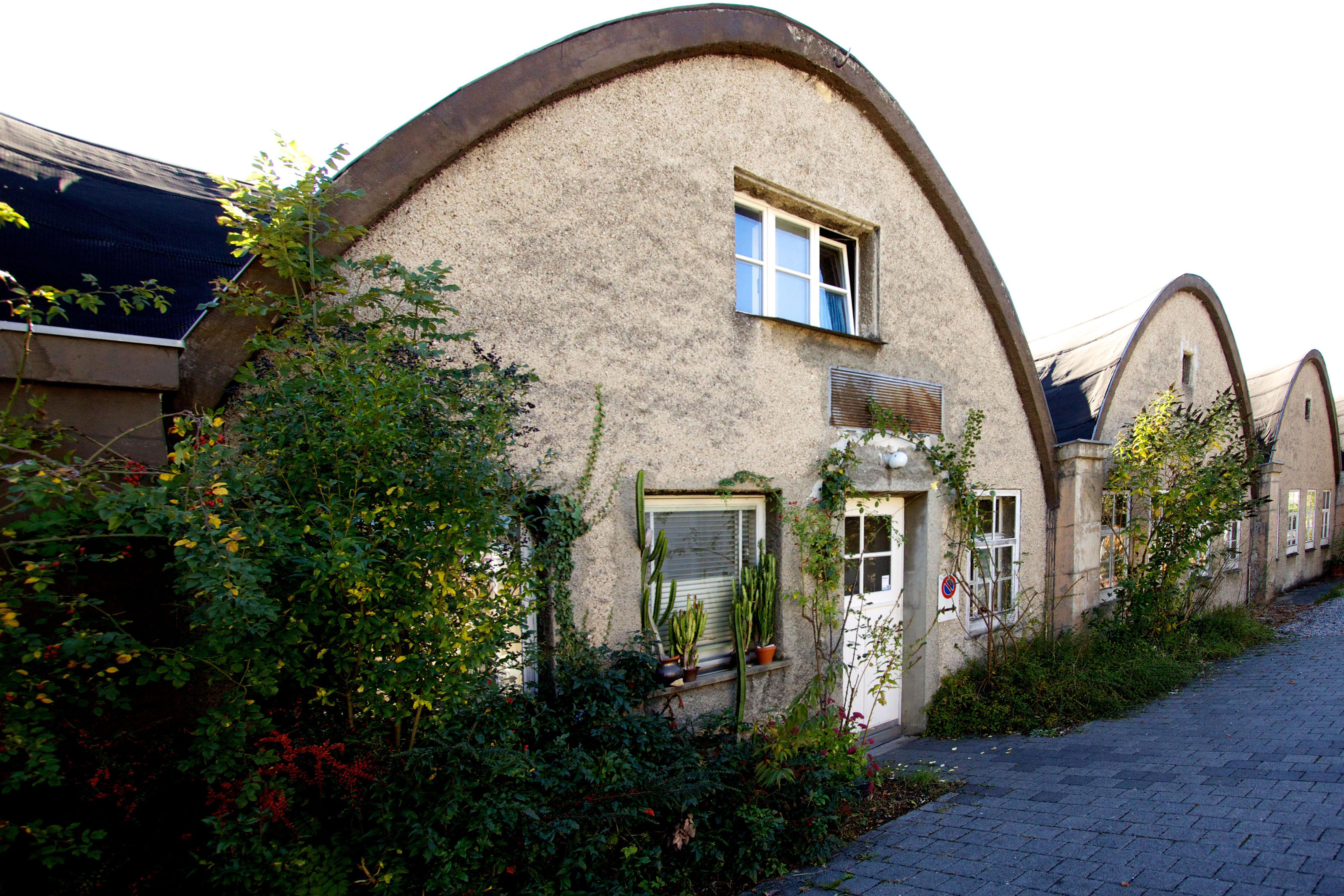 Haas type foundry